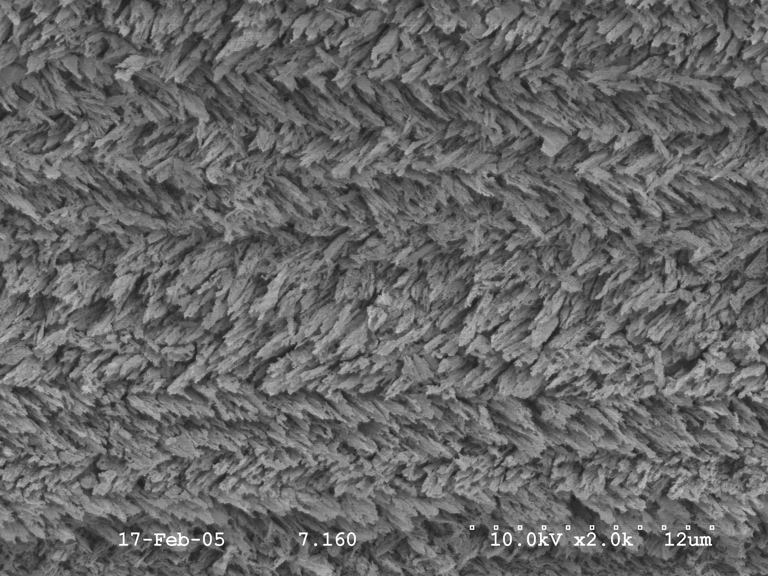 Longitudinal section of Serpula israelitica tube. Lamello-fibrillar structure. Polished and treated with acetic acid for two min.